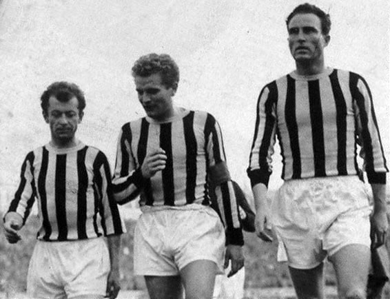 From left to right: Italian footballer Ermes Muccinelli and Giampiero Boniperti, and Danish John Hansen; Juventus F.C.'s attack trio between 1940s and 1950s.